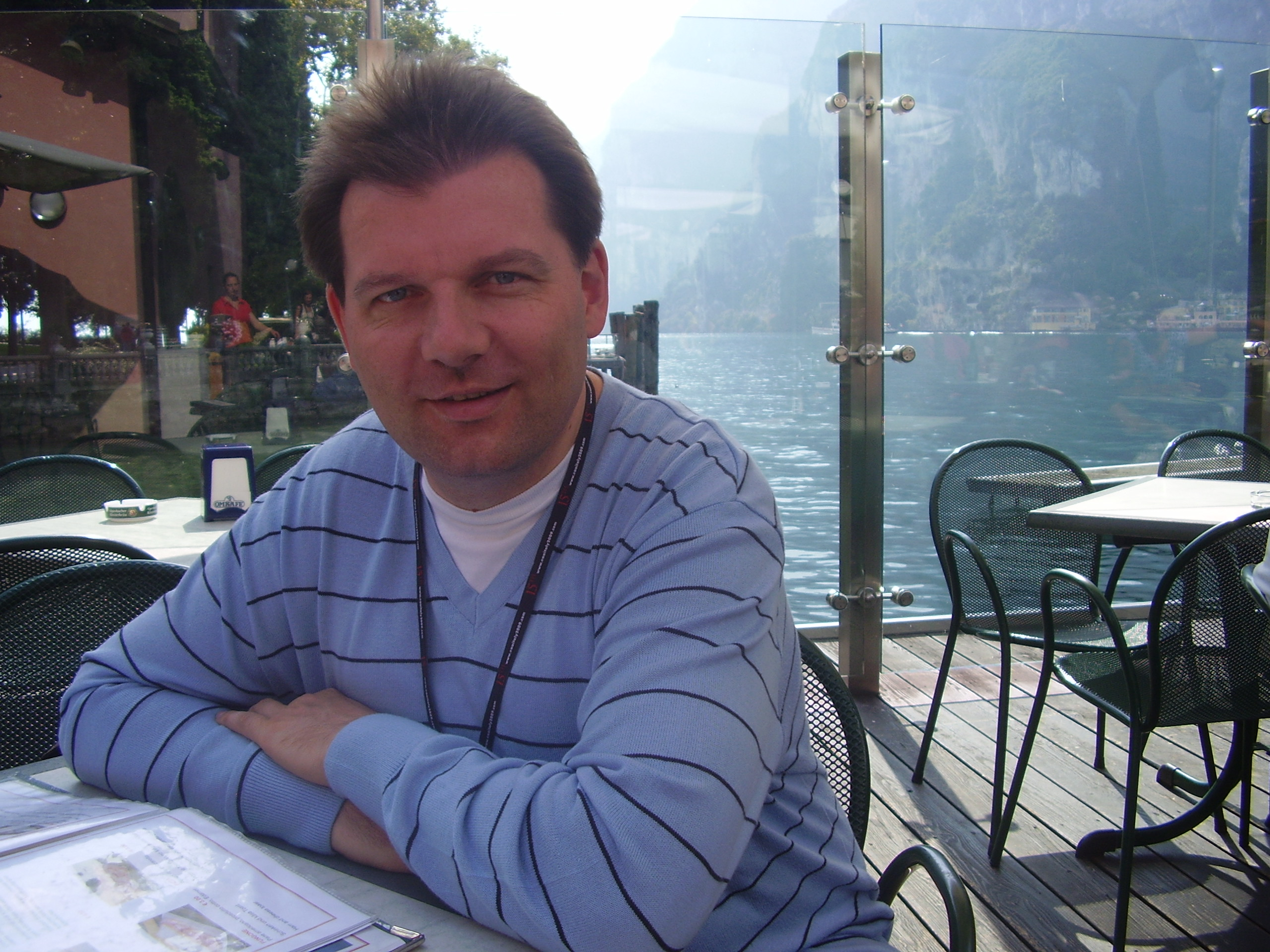 Roeland Paardekooper, Dutch archaeologist, taken at Riva del Garda, Italy, during the 2009 EAA Conference